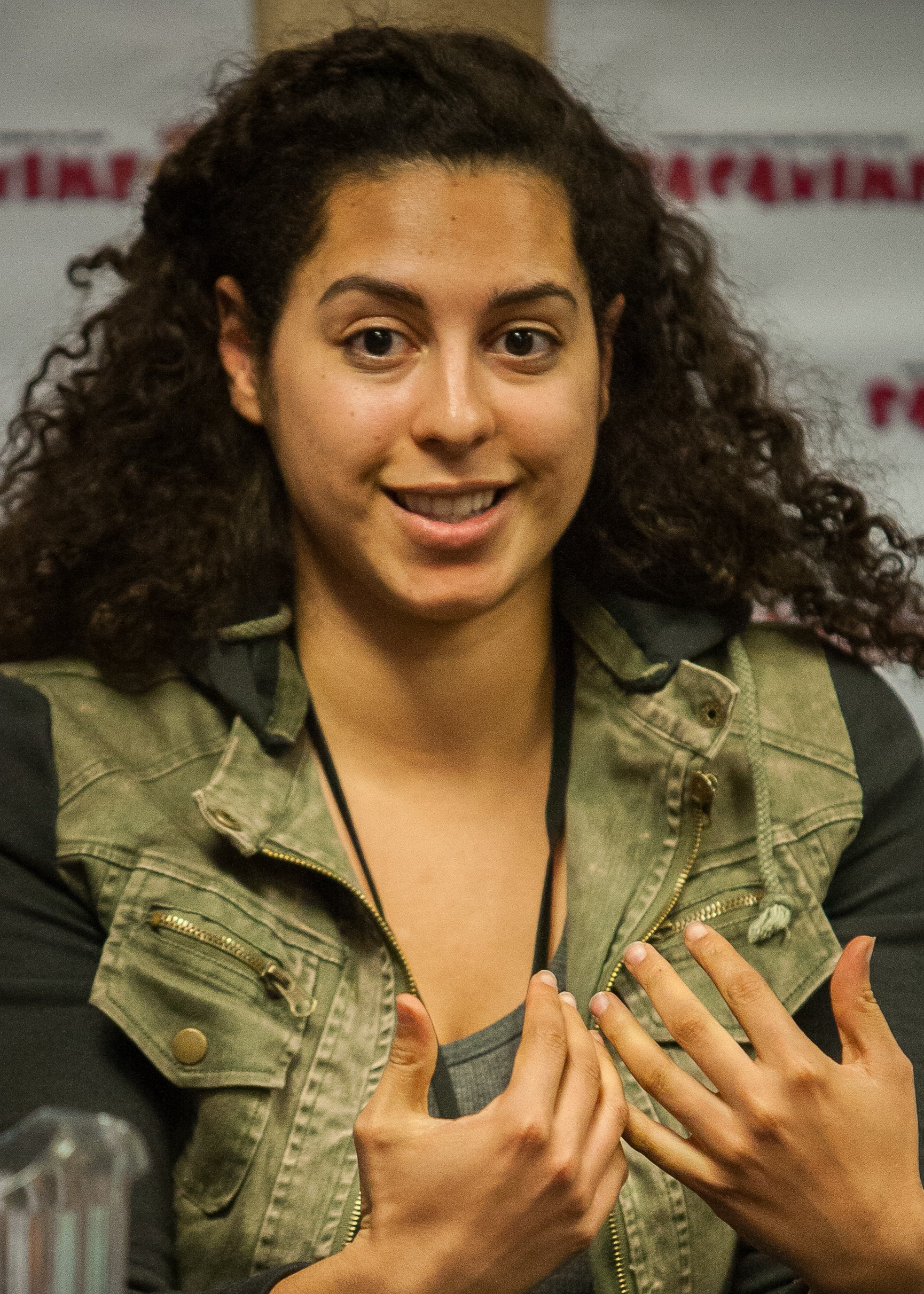 Amanda Celine Miller at SacAnime 2015 Winter